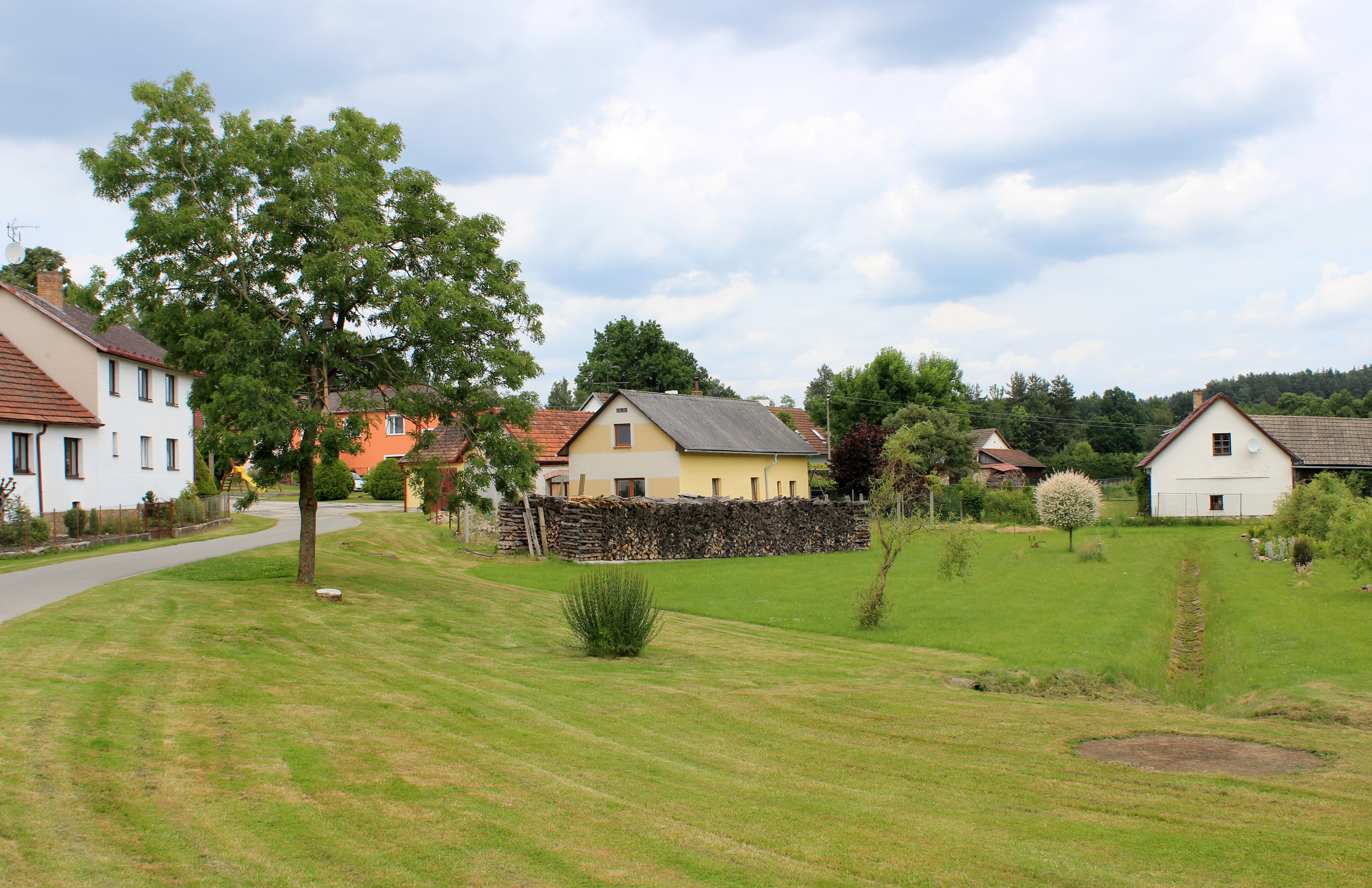 Lower part of Rosička, Czech Republic.